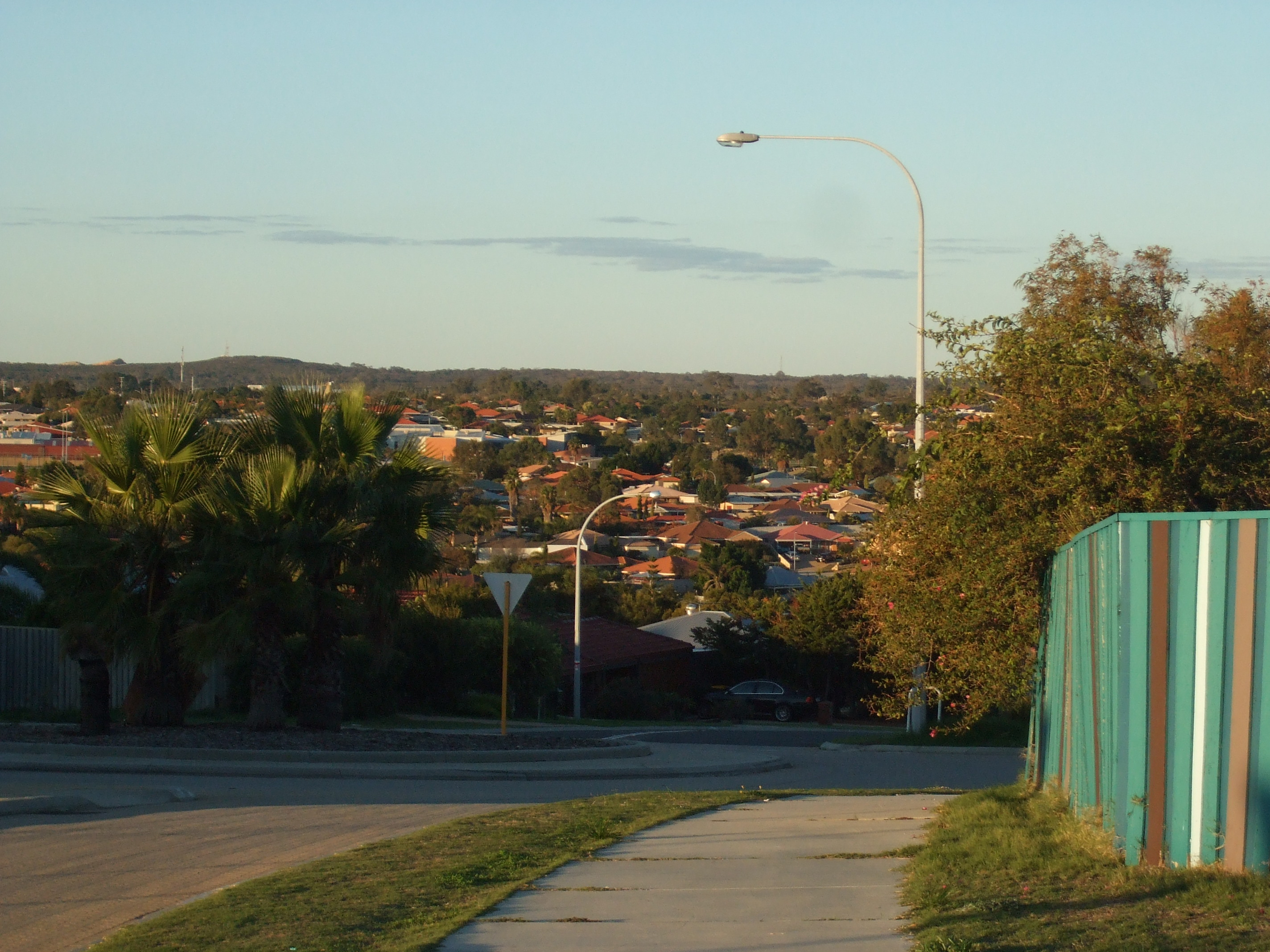 A photograph of the suburb of Clarkson, WA, from the top of Renshaw Boulevard. A photograph of the suburb of Clarkson, WA, from the top of Renshaw Boulevard.